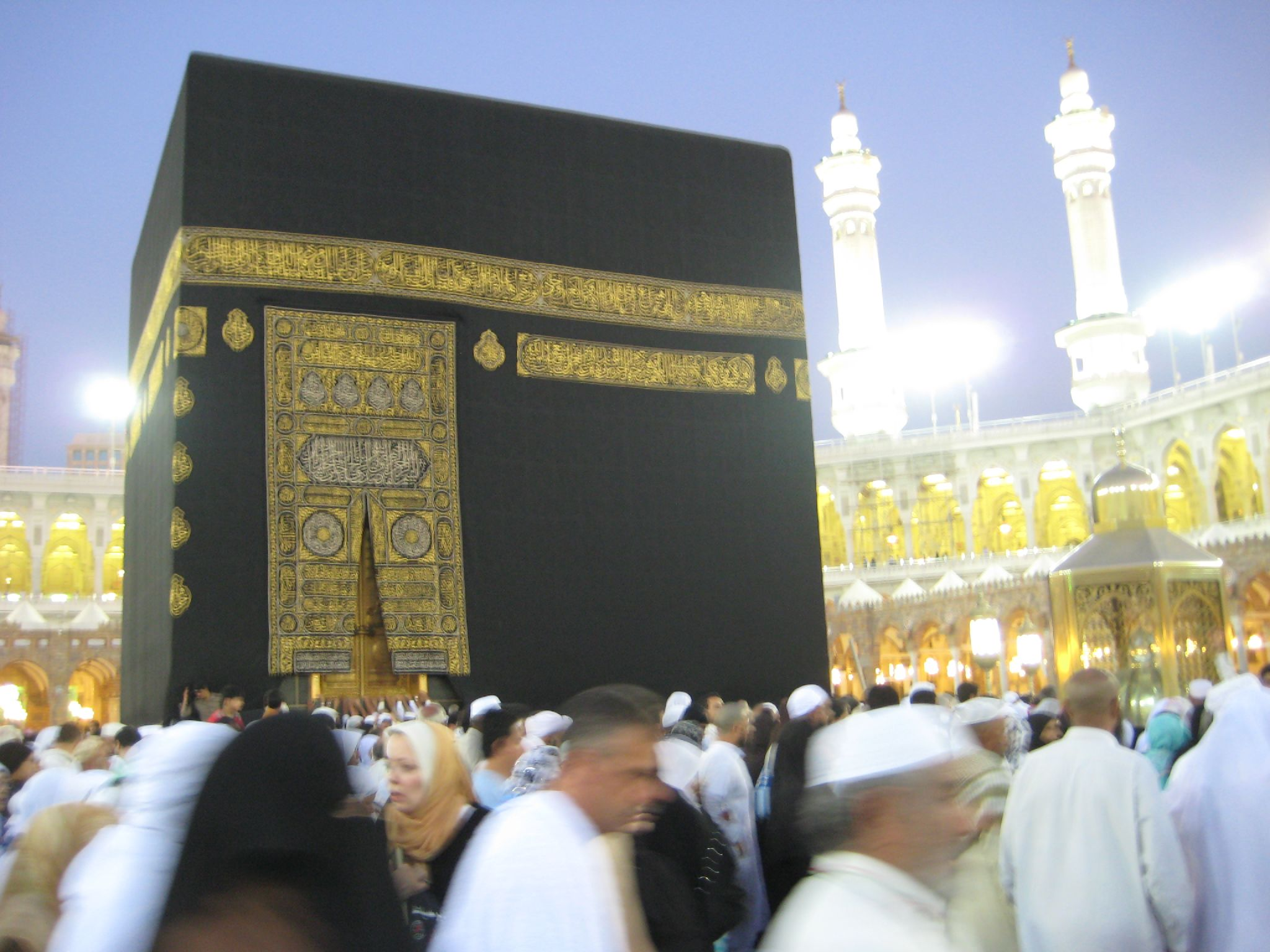 Circumambulating Islam's holiest site.